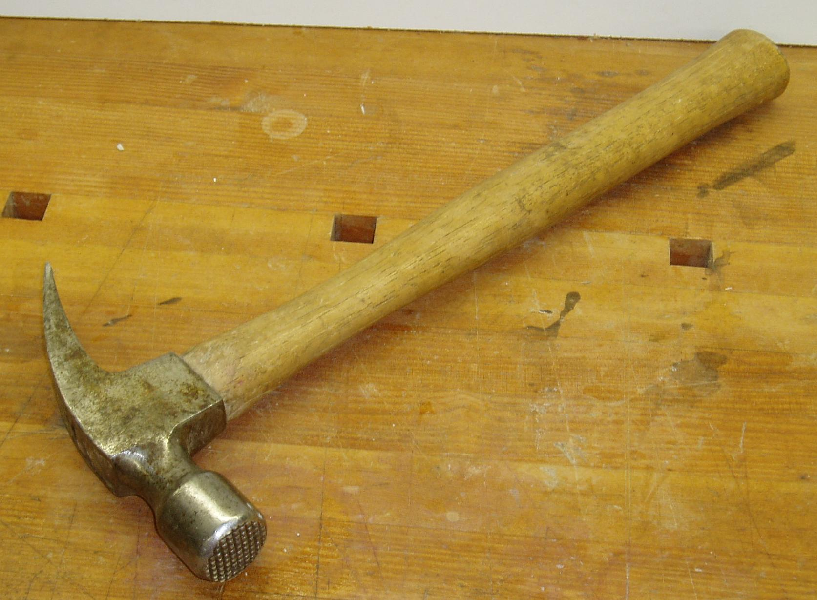 Picture of a 22-ounce Framing hammer with milled face taken 16 October 2005 by Luigi Zanasi (myself) on my workbench using a Olympus digital camera.